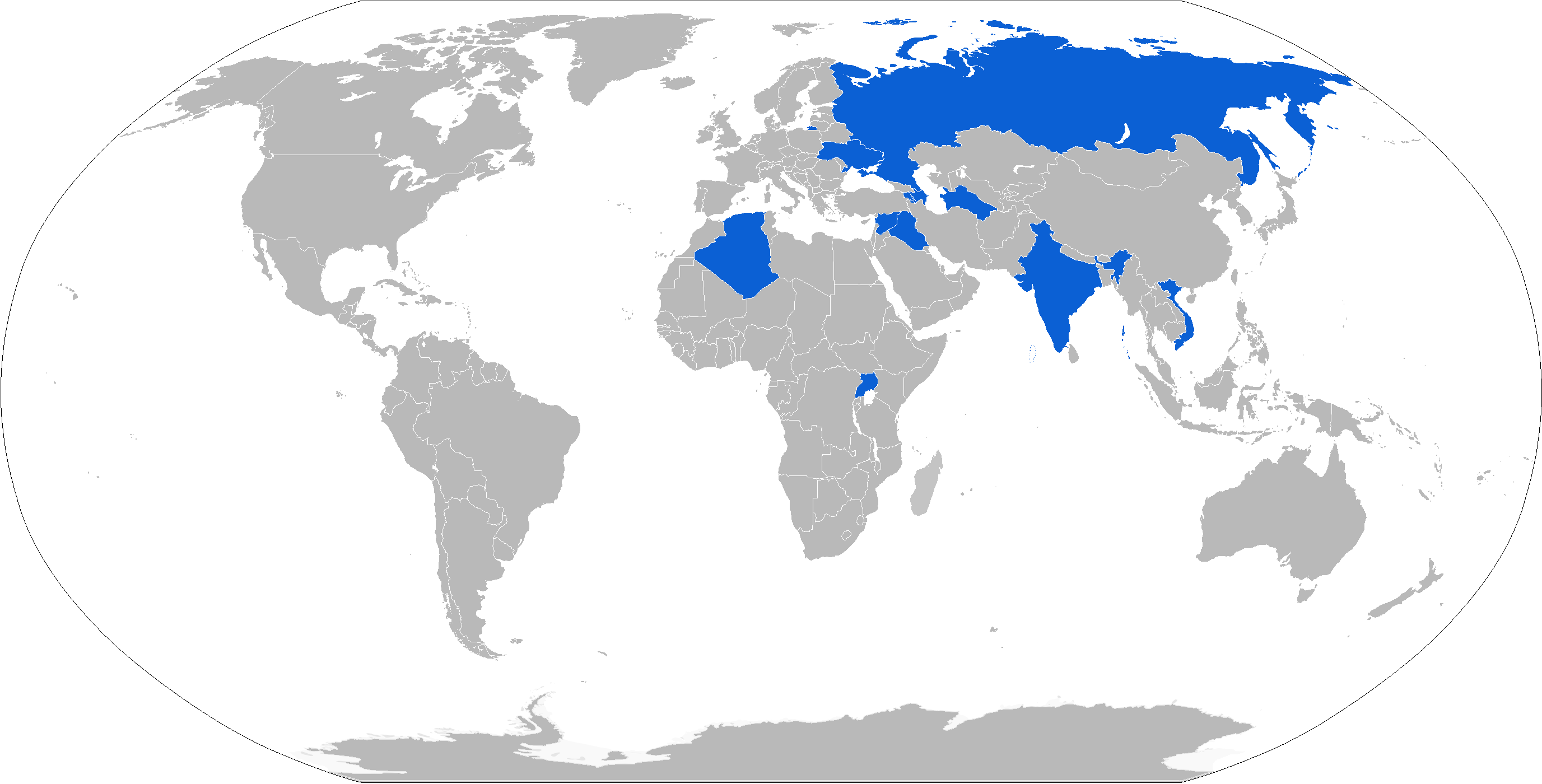 T-90 Russian Main battle tank operators in blue .